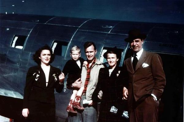 George W. Bush with his mother, Barbara Bush; father, George Bush; and grandparents, Dorothy and Prescott Bush, in Midland, TX.